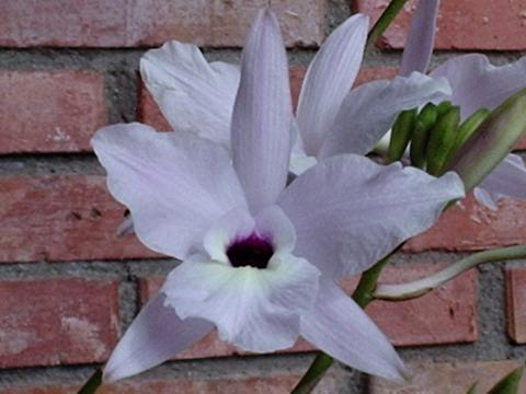 A work released per the GNU Free Documentation License by: Martín Javier Battiti de Tegucigalpa, Honduras